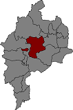 Location of Ribera d'Urgellet in Alt Urgell